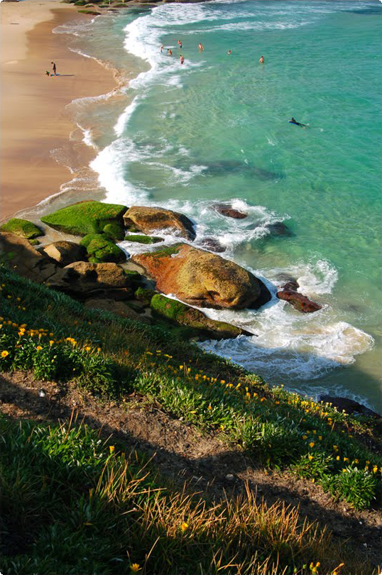 Tamarama Beach